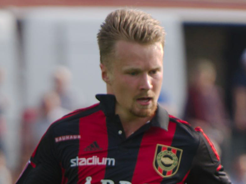 Allsvenskan IF Brommapojkarna-Malmö FF at Grimsta IP